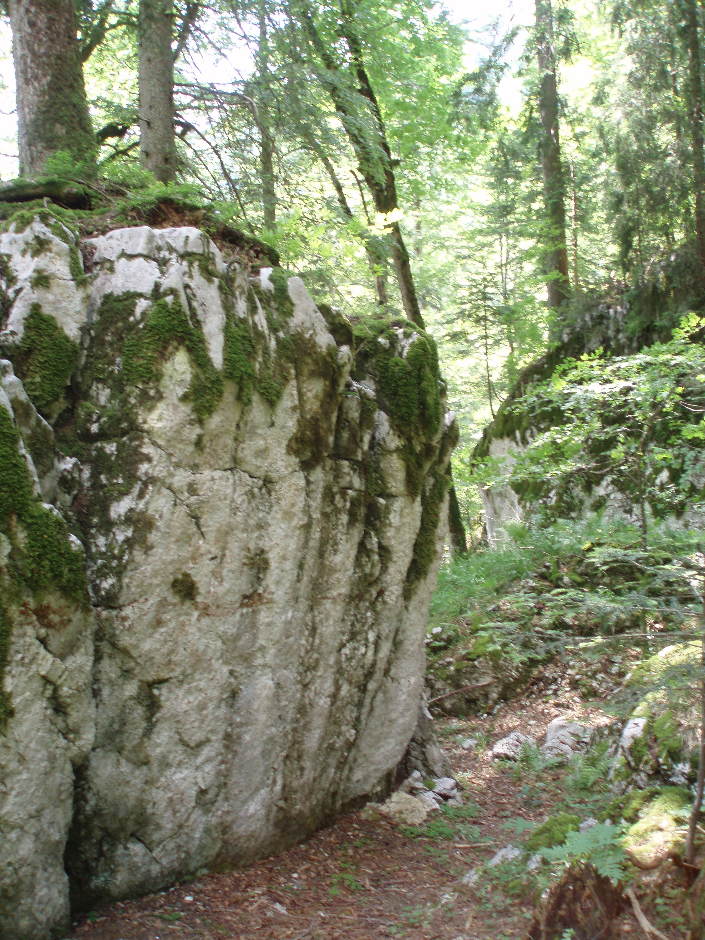 Grande Chartreuse : Stones on the probable place of the first monastery are perhaps remains of the avalanche which destroyed it